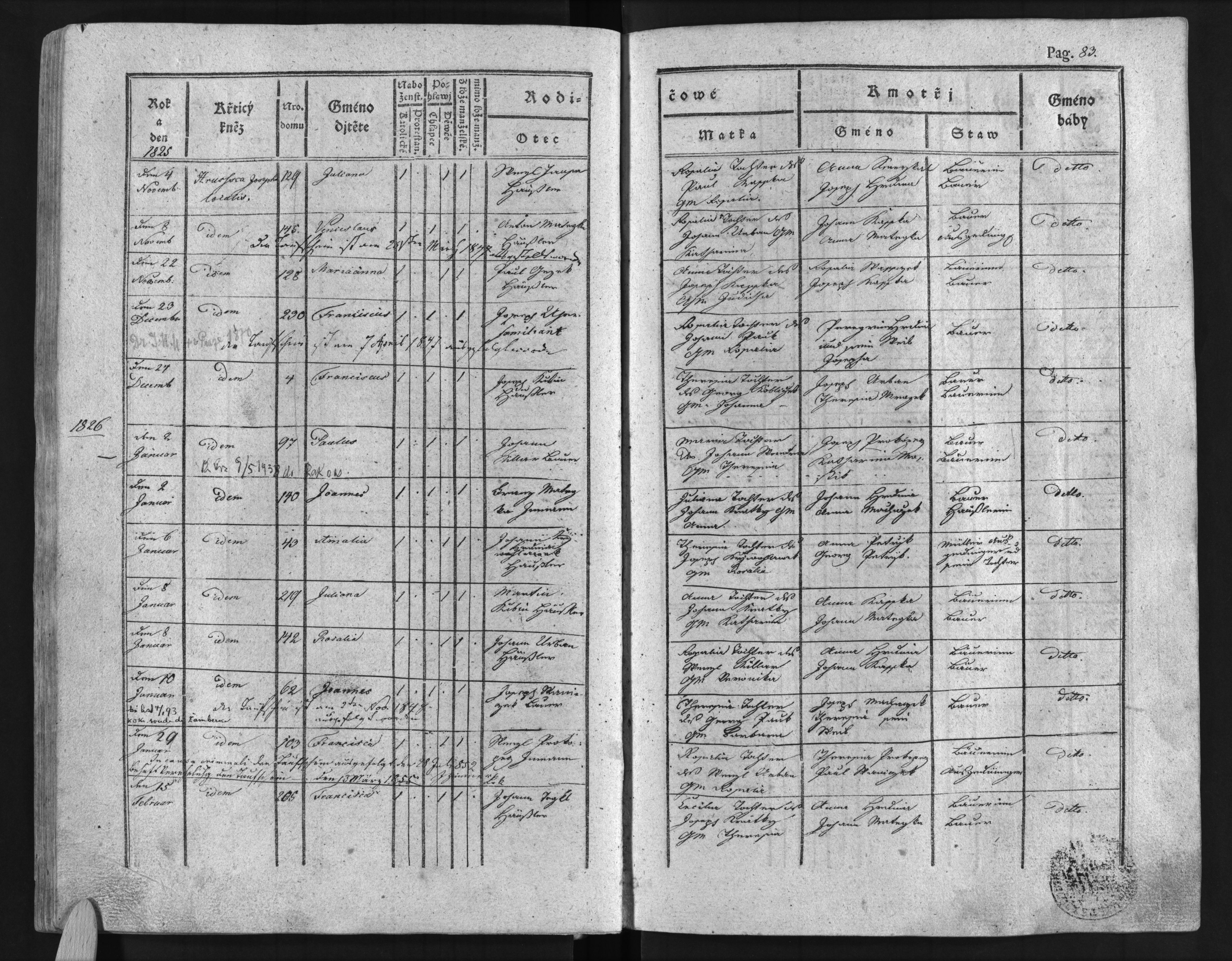 Parish register with the birth record of František Uher (1825-1870)